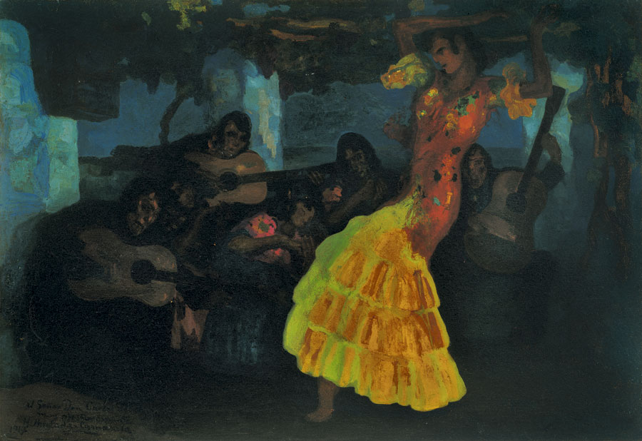 Baile Gitano, Óleo sobre lienzo, Anglada-Camarasa (1914)